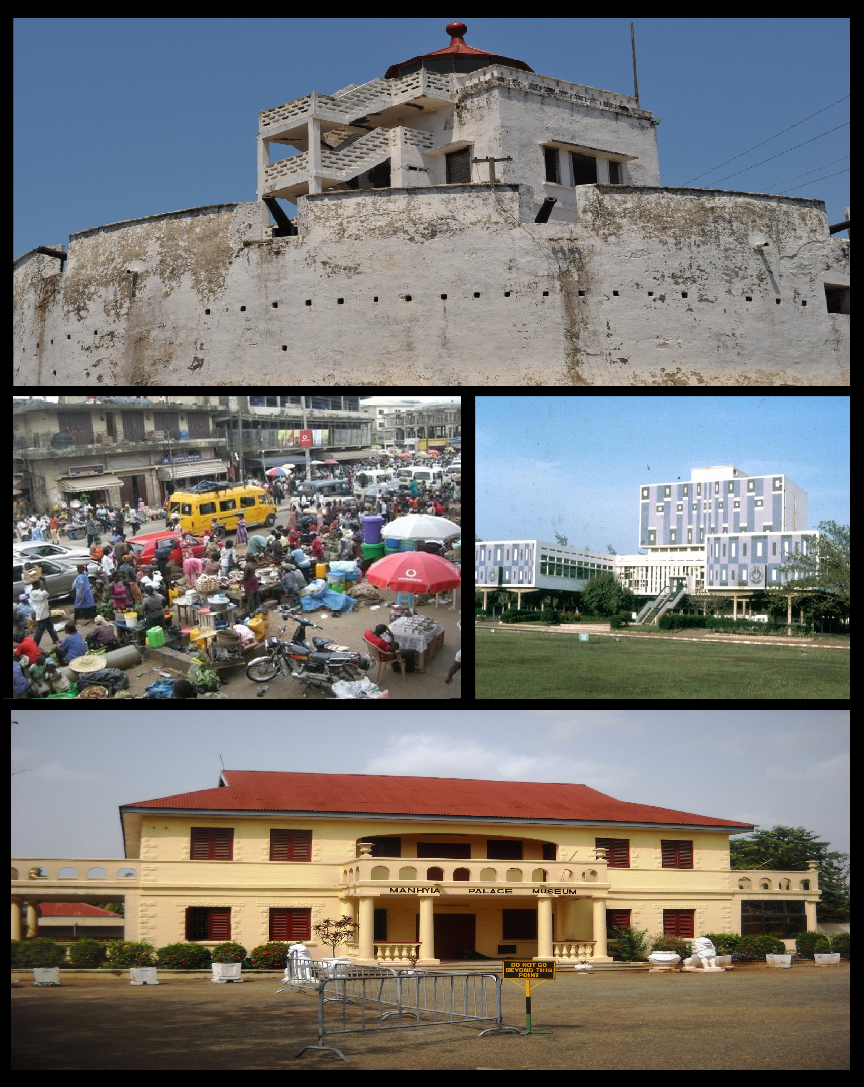 Collage of Kumasi Clockwise from top:Fort Kumasi, Kumasi Central Market, Kwame Nkrumah University of Science and Technology and the Manhiya Palace